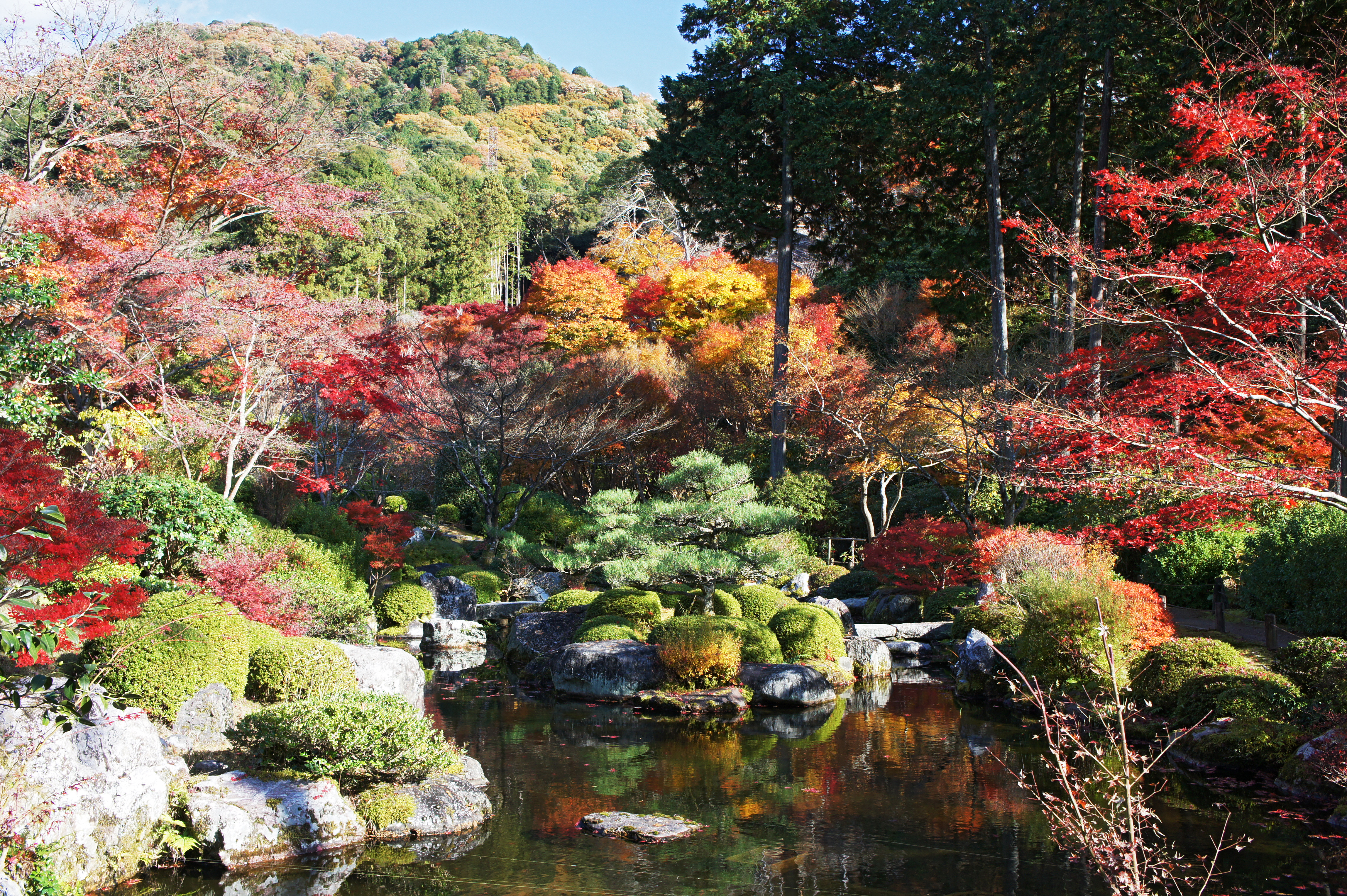 Mimuroto-ji Garden "Yorakuen" in Uji, Kyoto prefecture, Japan